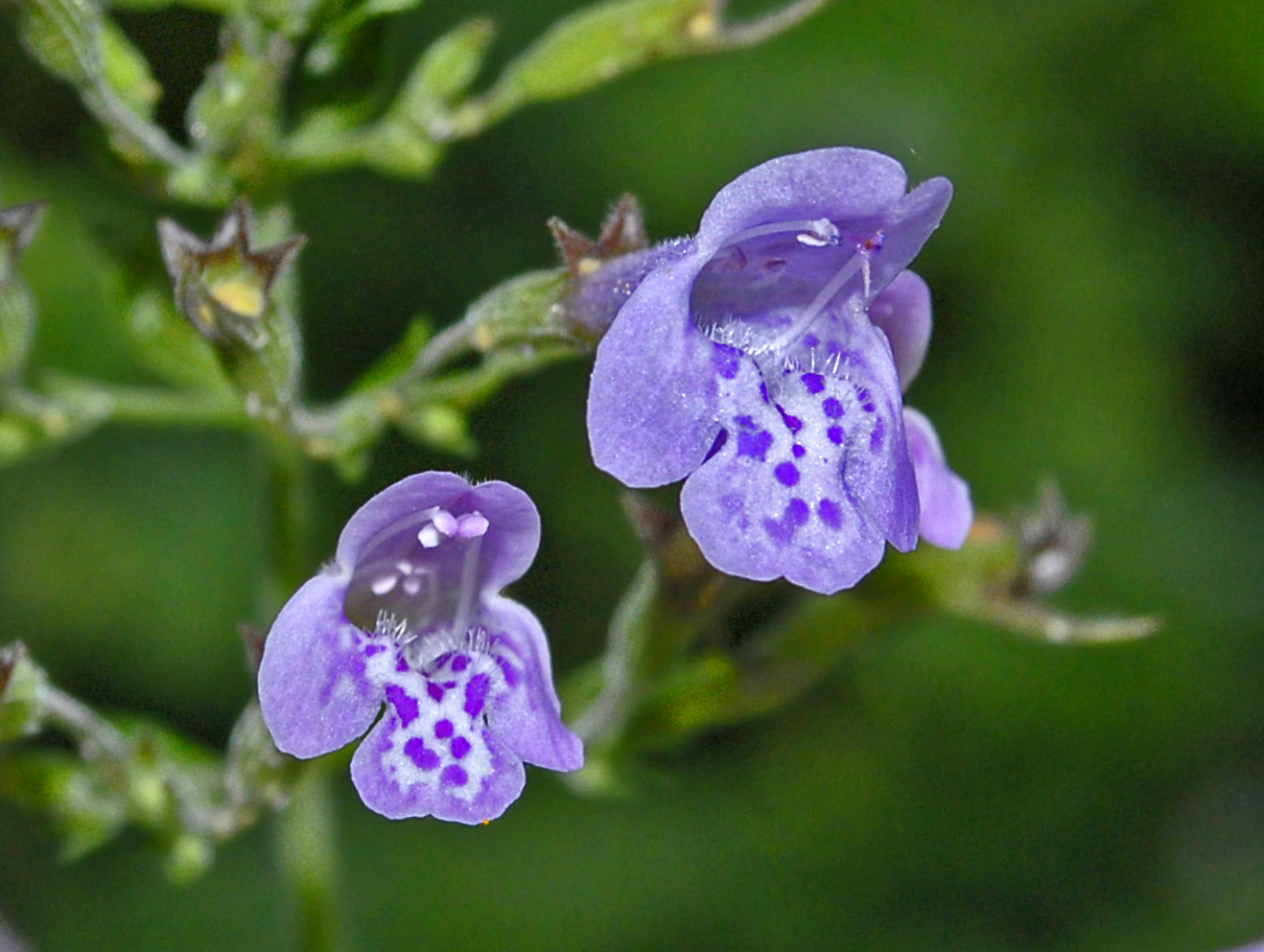 Flowers of Clinopodium ascendens at the Civico Orto Botanico di Trieste